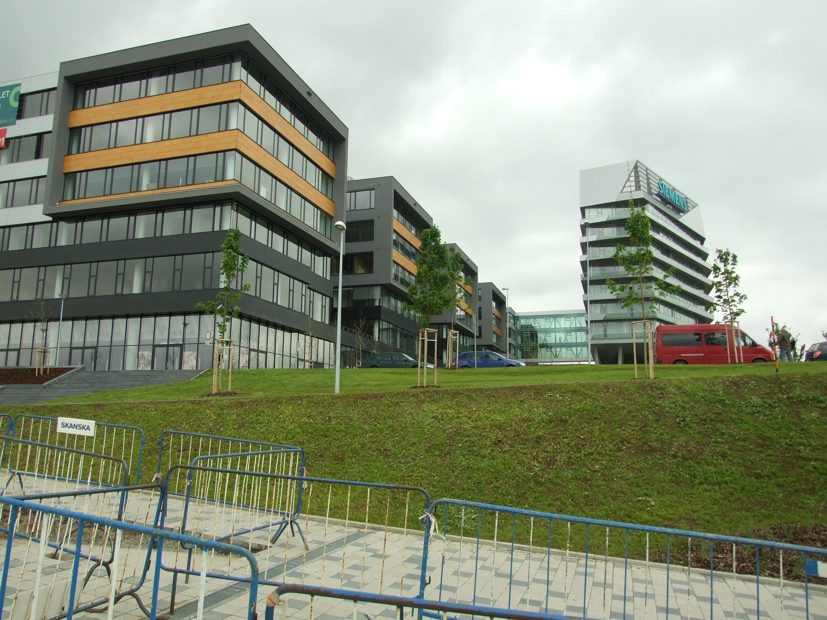 So-called "Západní město" (Western City) under construction in Prague-Stodůlky. New apartments and offices are situated in a place where large socialist-style apartments were planned in 1980's. Part of the construction works of this new "city" is also completation of abandoned western Stodůlky metro station exit.